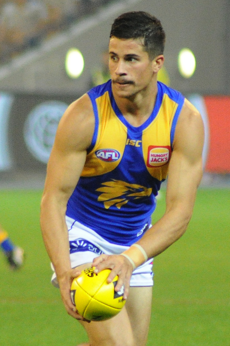 Liam Duggan during the AFL round five match between Carlton and West Coast on 21 April 2018 at the Melbourne Cricket Ground in Melbourne, Victoria.